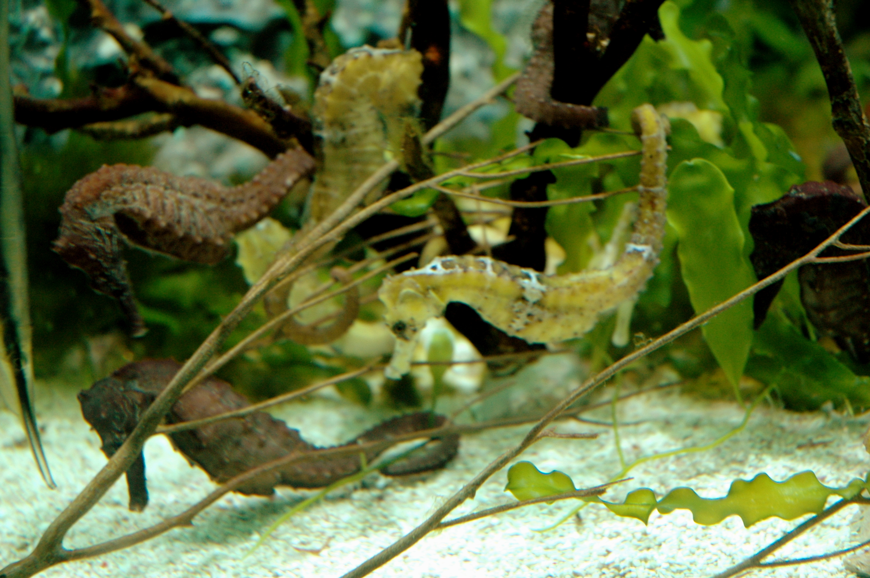 Seahorsesea horses